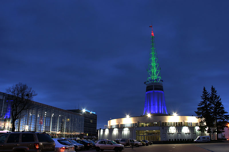 Iglica